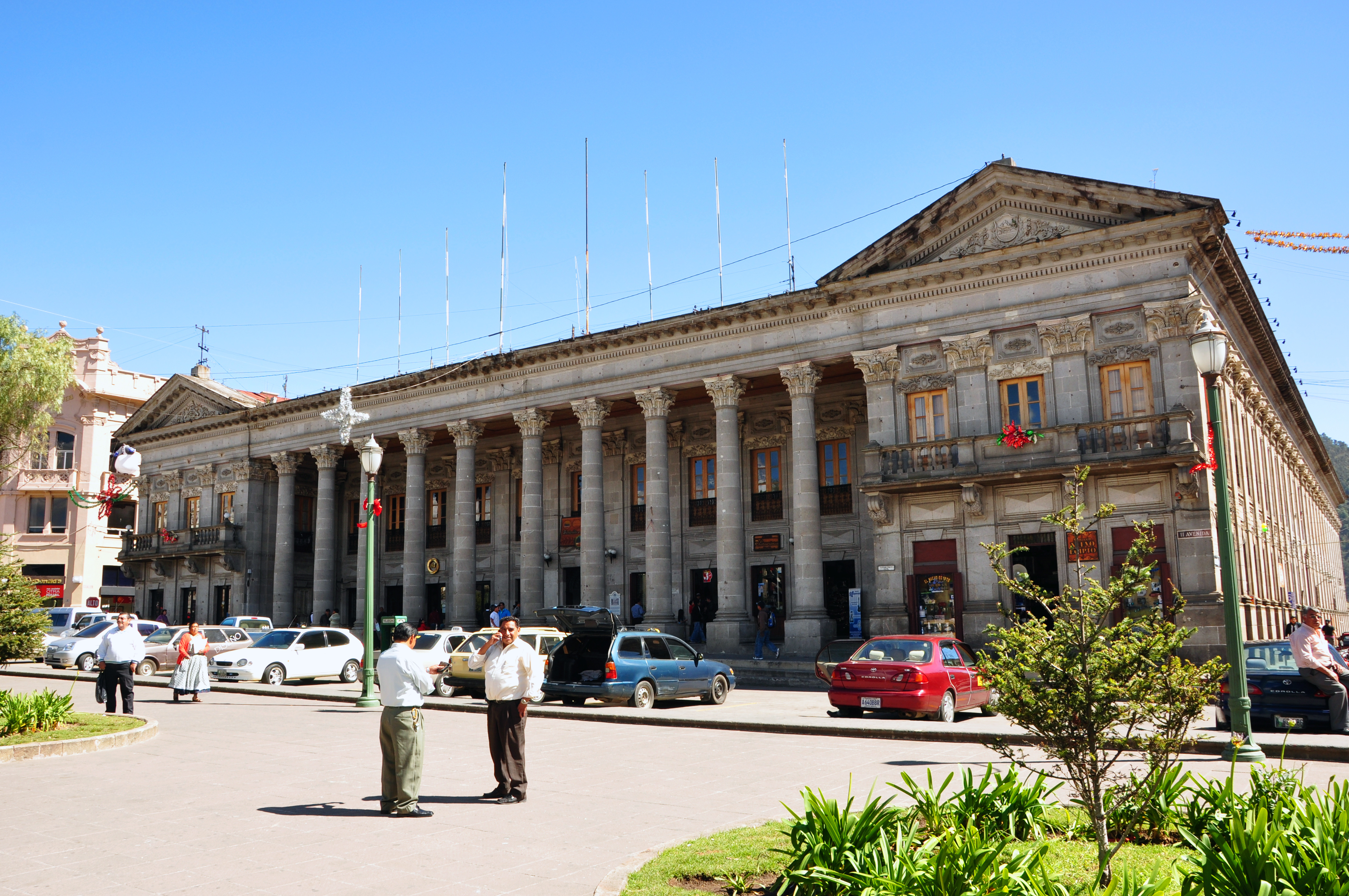 Quetzaltenango city hall area Guatemala 2009